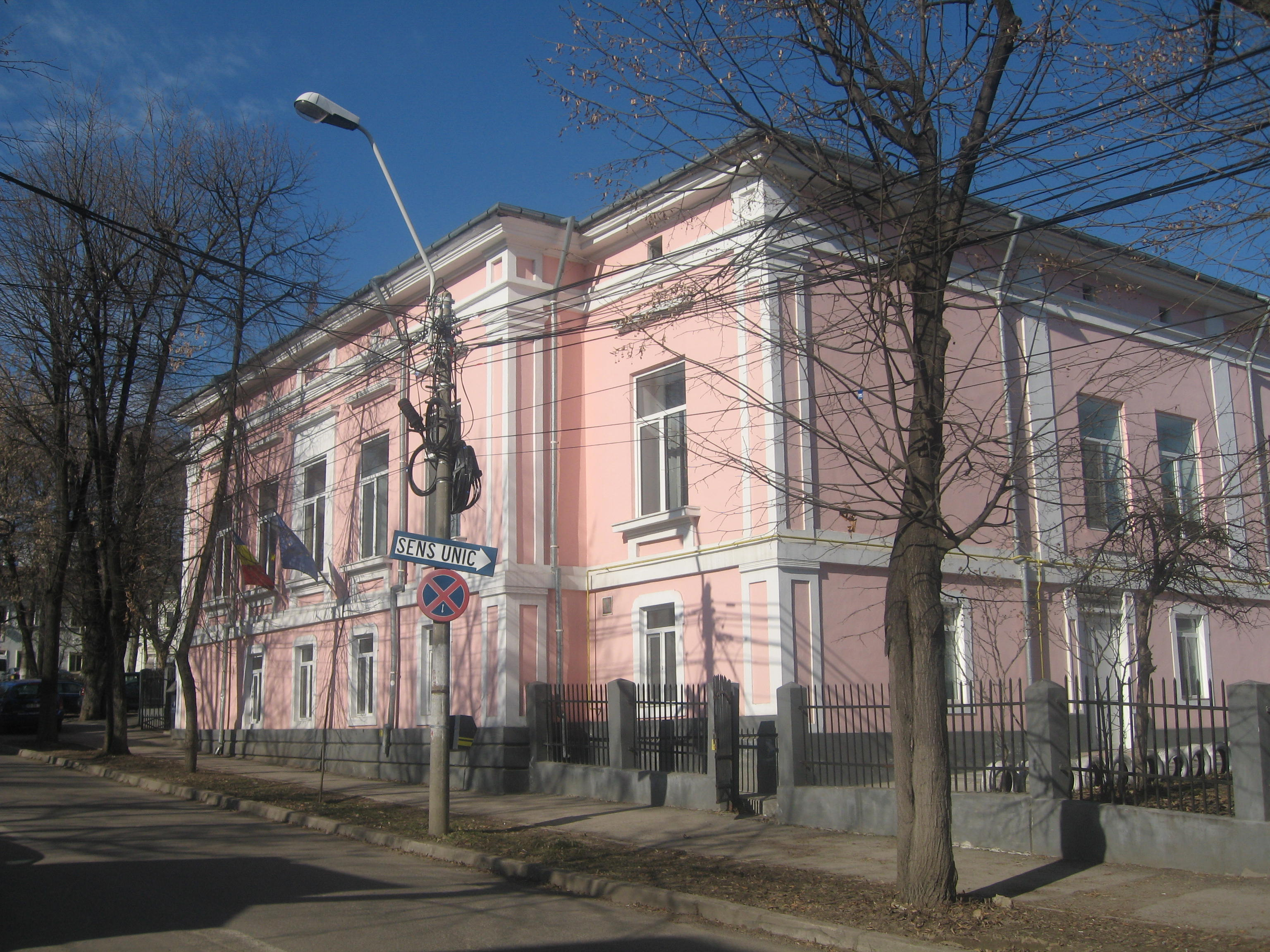 Emil Racoviţă's House in Iaşi (Romania), historical monument IS-II-m-B-03798